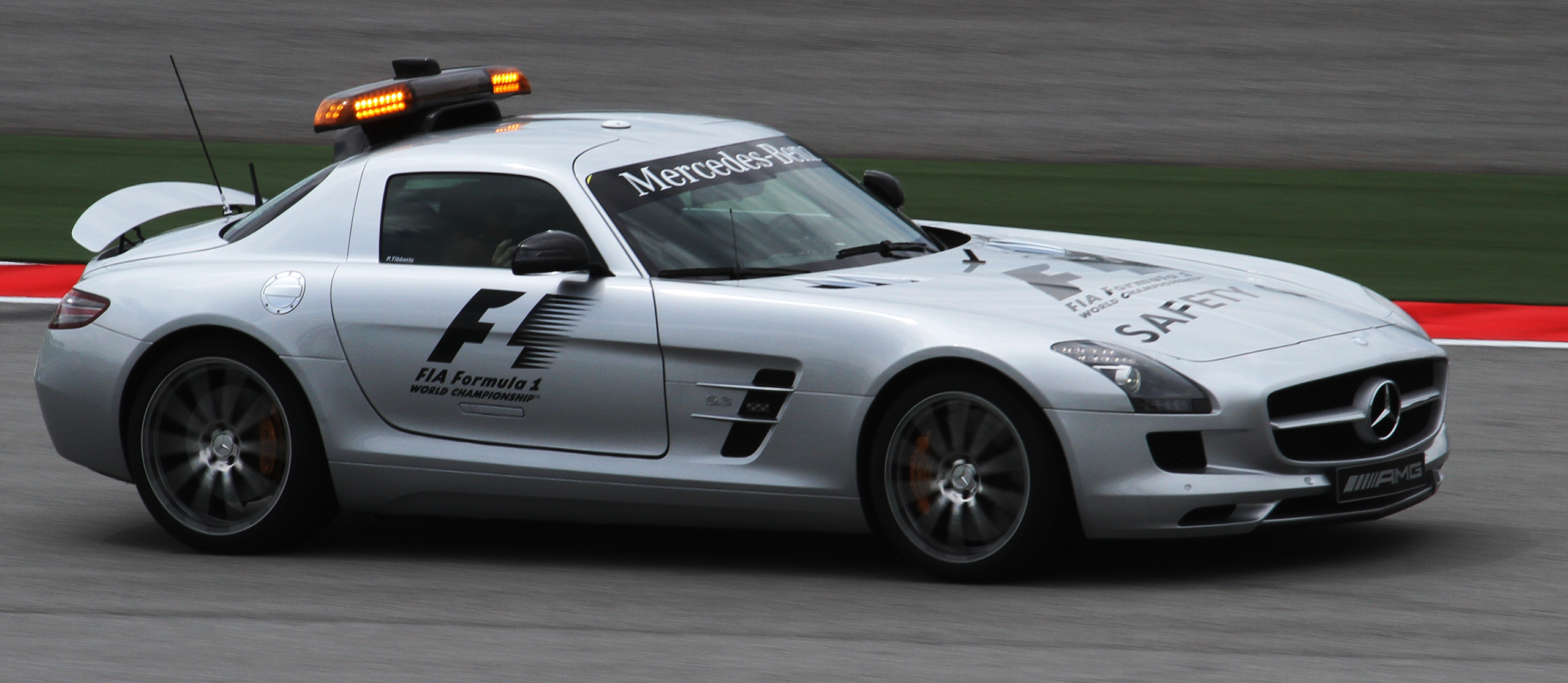 Formula One 2010 Rd.3 Malaysian GP: Mercedes-Benz SLS Formula One safety car